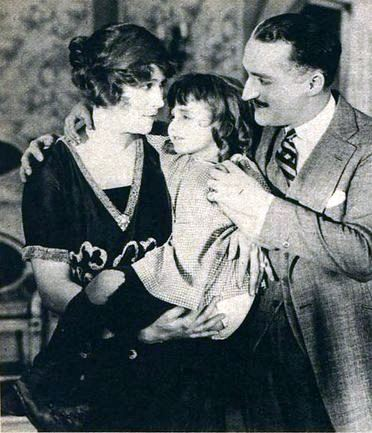 Still from the American film Who Are My Parents? (1922) (also known as A Little Child Shall Lead Them) with L. Rogers Lytton and Peggy Shaw, on page 38 of the December 1922 Screenland.